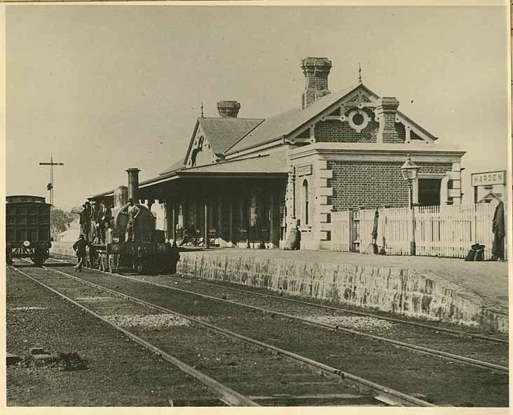 Harden Railway Station Dated: by 31 December 1889 Digital ID: 17420_a014_a014000622 Rights: We'd love to hear from you if you use our photos. Many other photos in our collection are available to view and browse on our website using Photo Investigator.